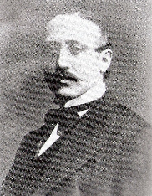 Leonhard von Massenbach, Landrat, Obertaunuskreis, Bad Homburg, Germany